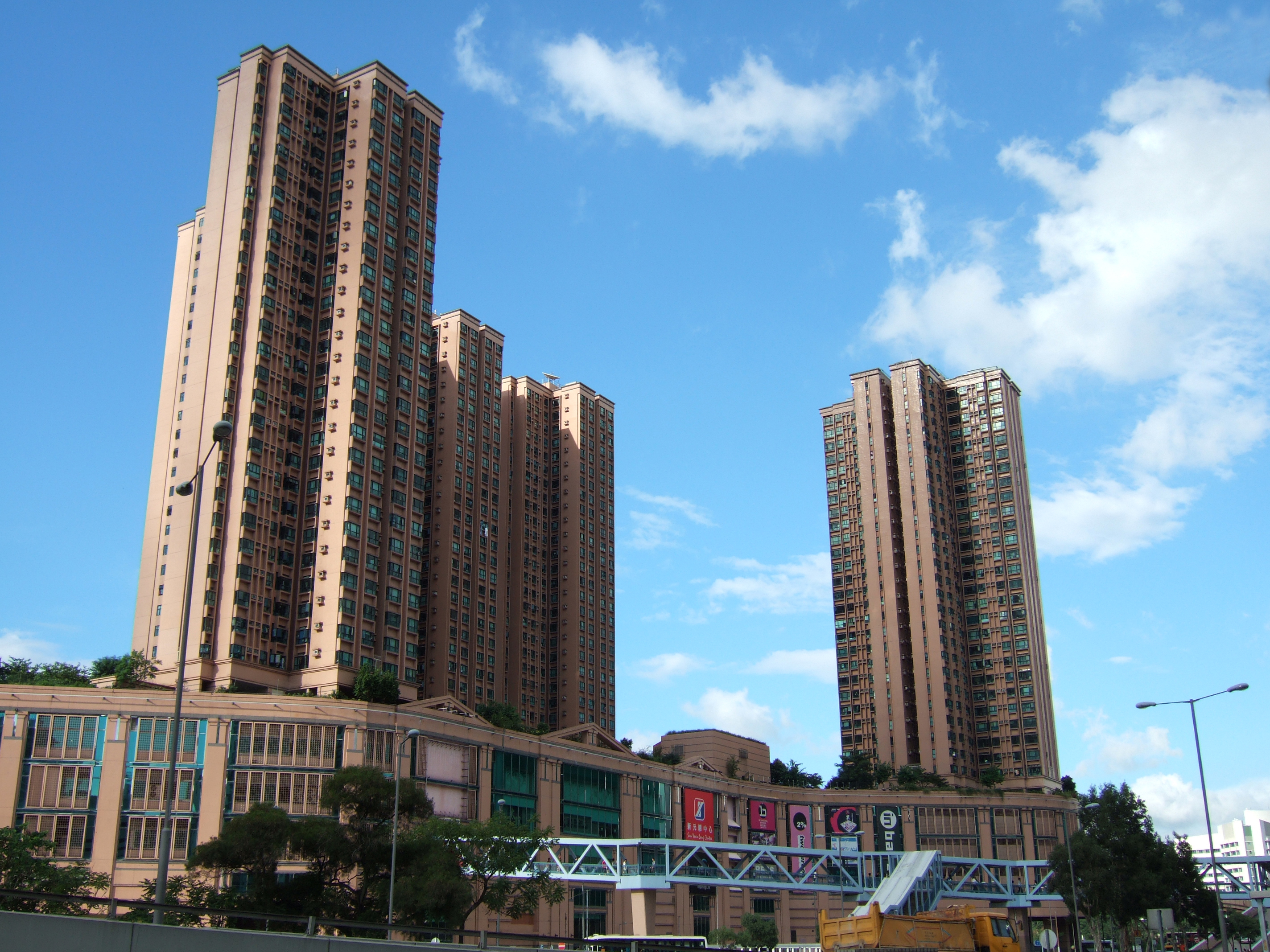 Photo of Sun Yuen Long Centre